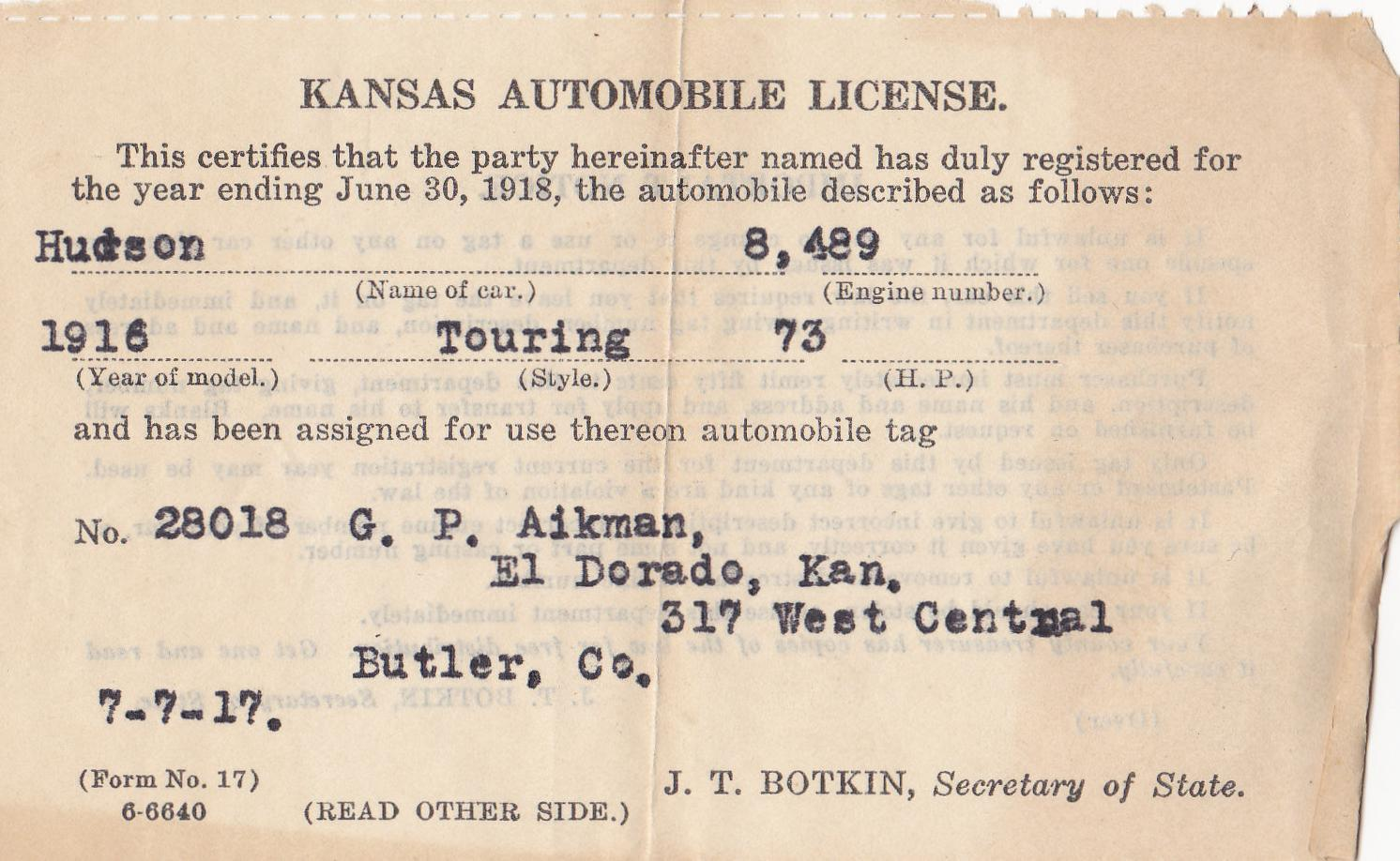 A 1917 Kansas state automobile license. Scanned by me from original copy